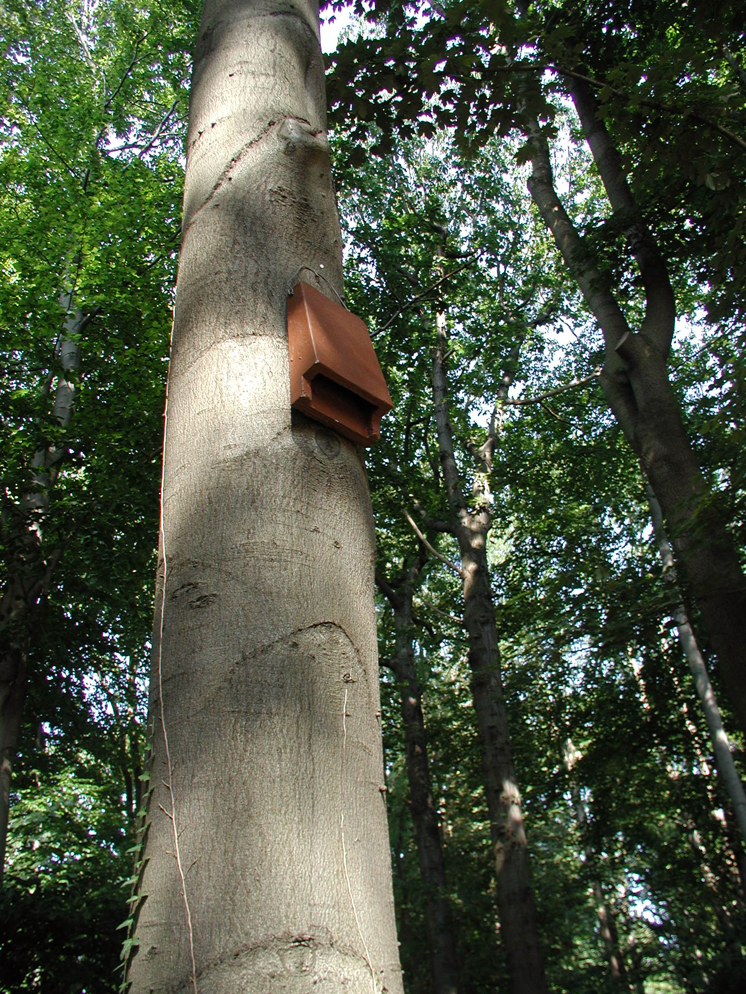 Bat house